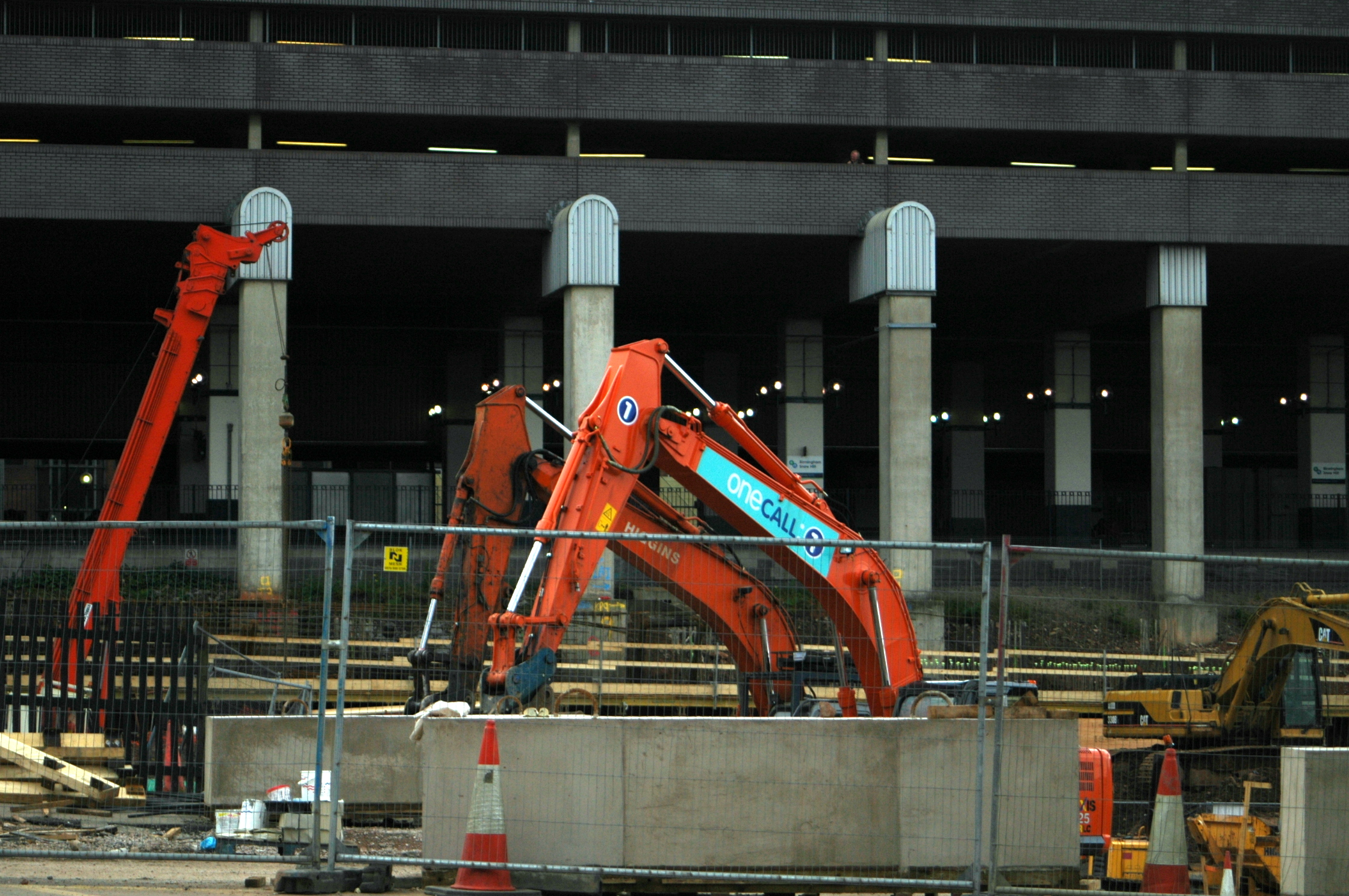 A view of construction work at the Snowhill site in Birmingham, England. The diggers are preparing the ground at Phase 3 for the construction of a hotel tower and an apartment tower.